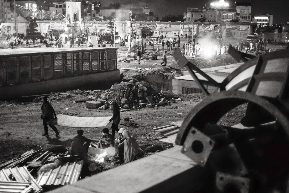 Taksim night protests. Events of June 3, 2013.